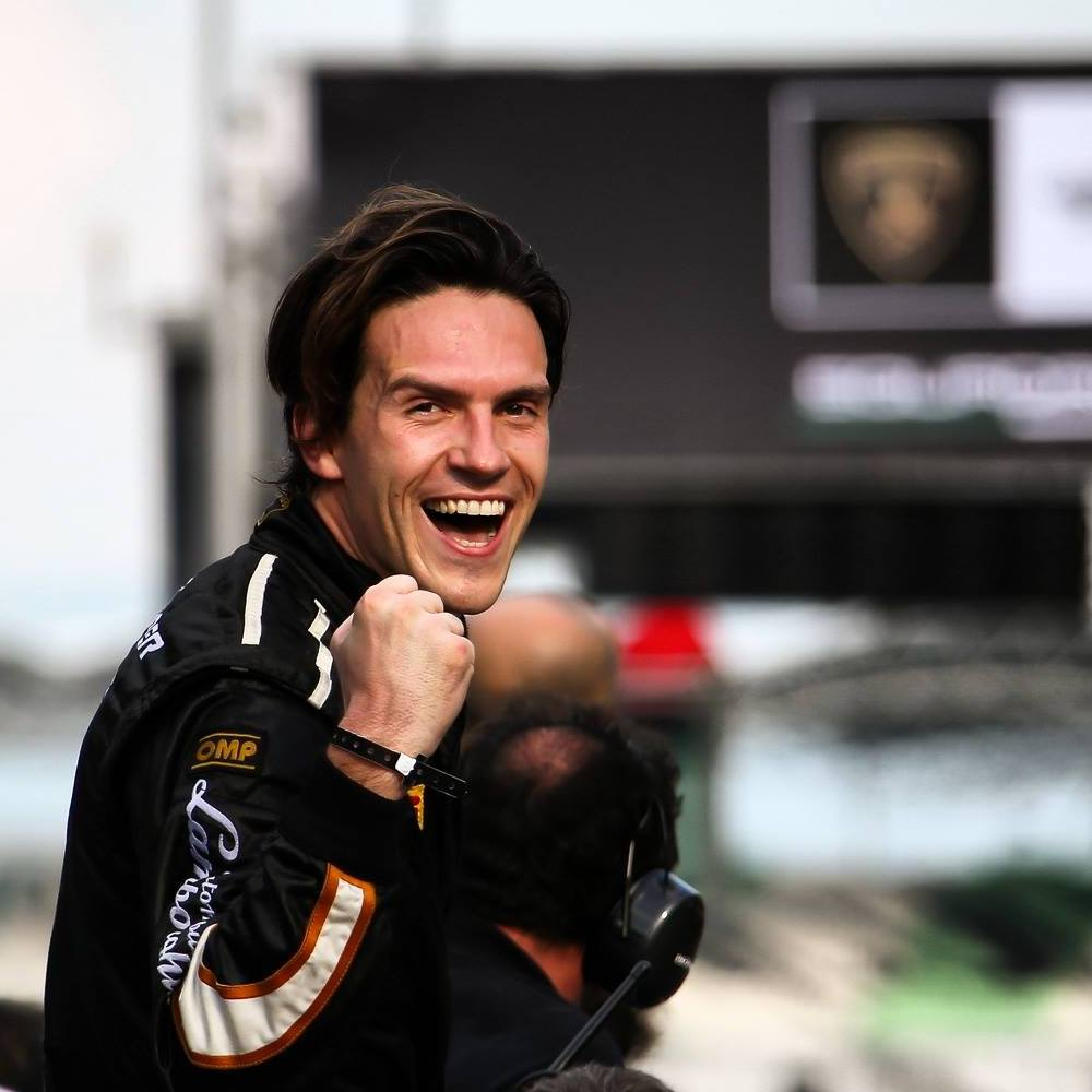 Milos celebrating his win in the Super Trofeo World Final in Sepang, Malaysia.